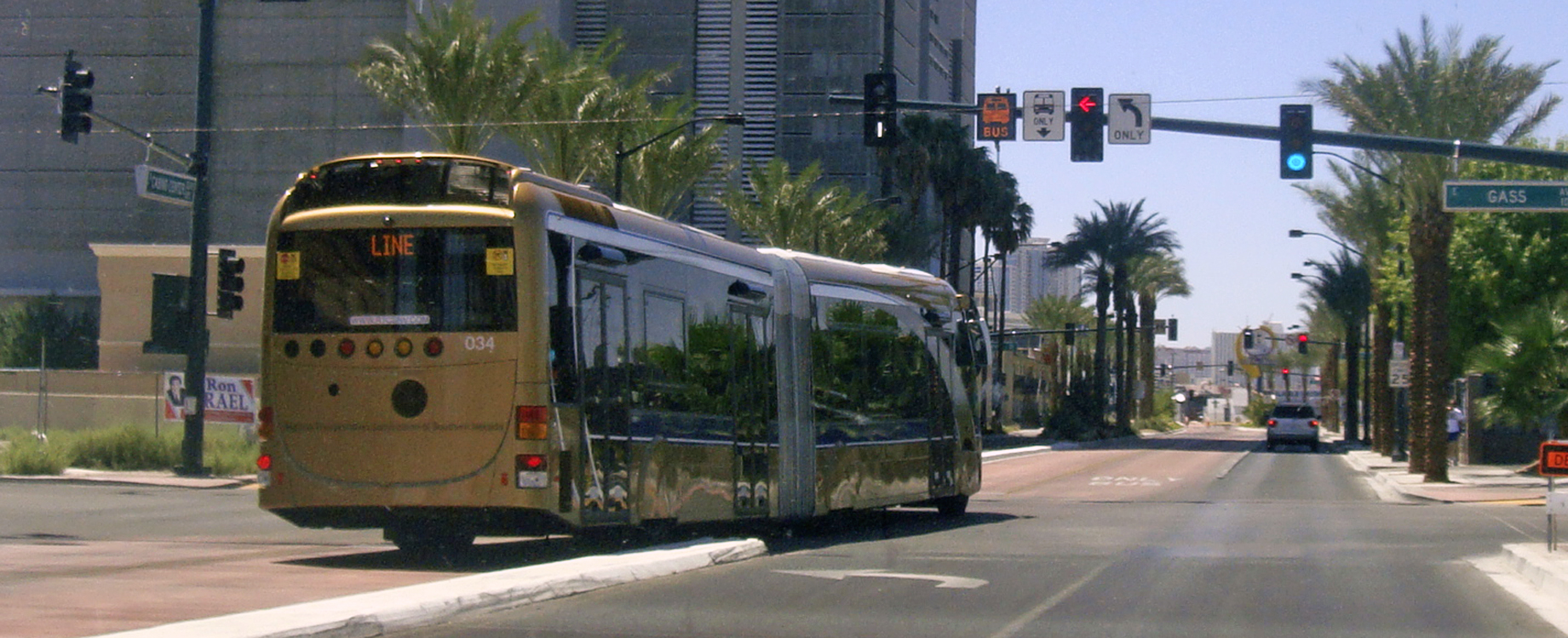 BRT line operated by the Regional Transportation Commission of Southern Nevada (RTC), Las Vegas, USA